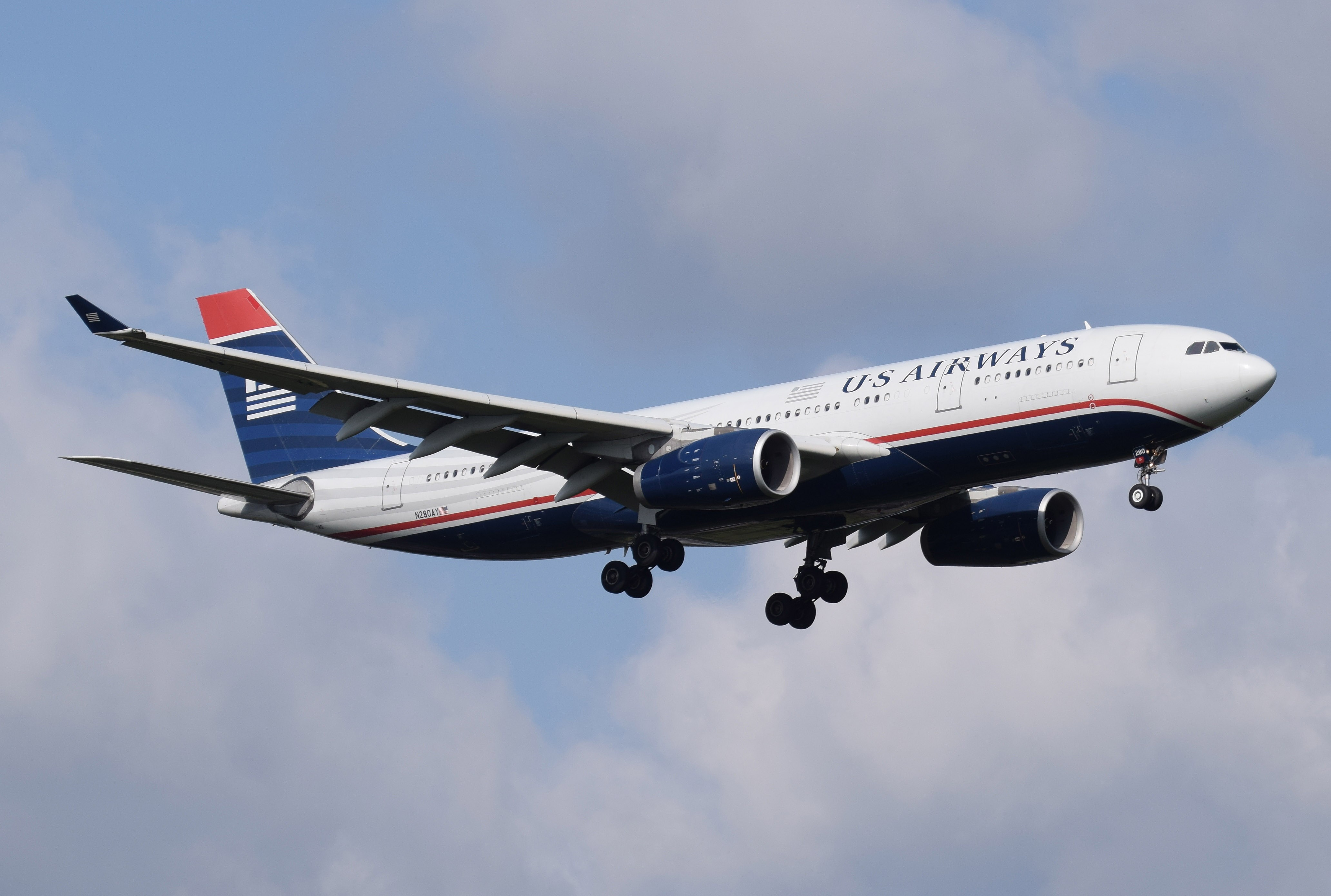 US Airways Airbus A330-200 (N280AY) arrives London Heathrow Airport, England.